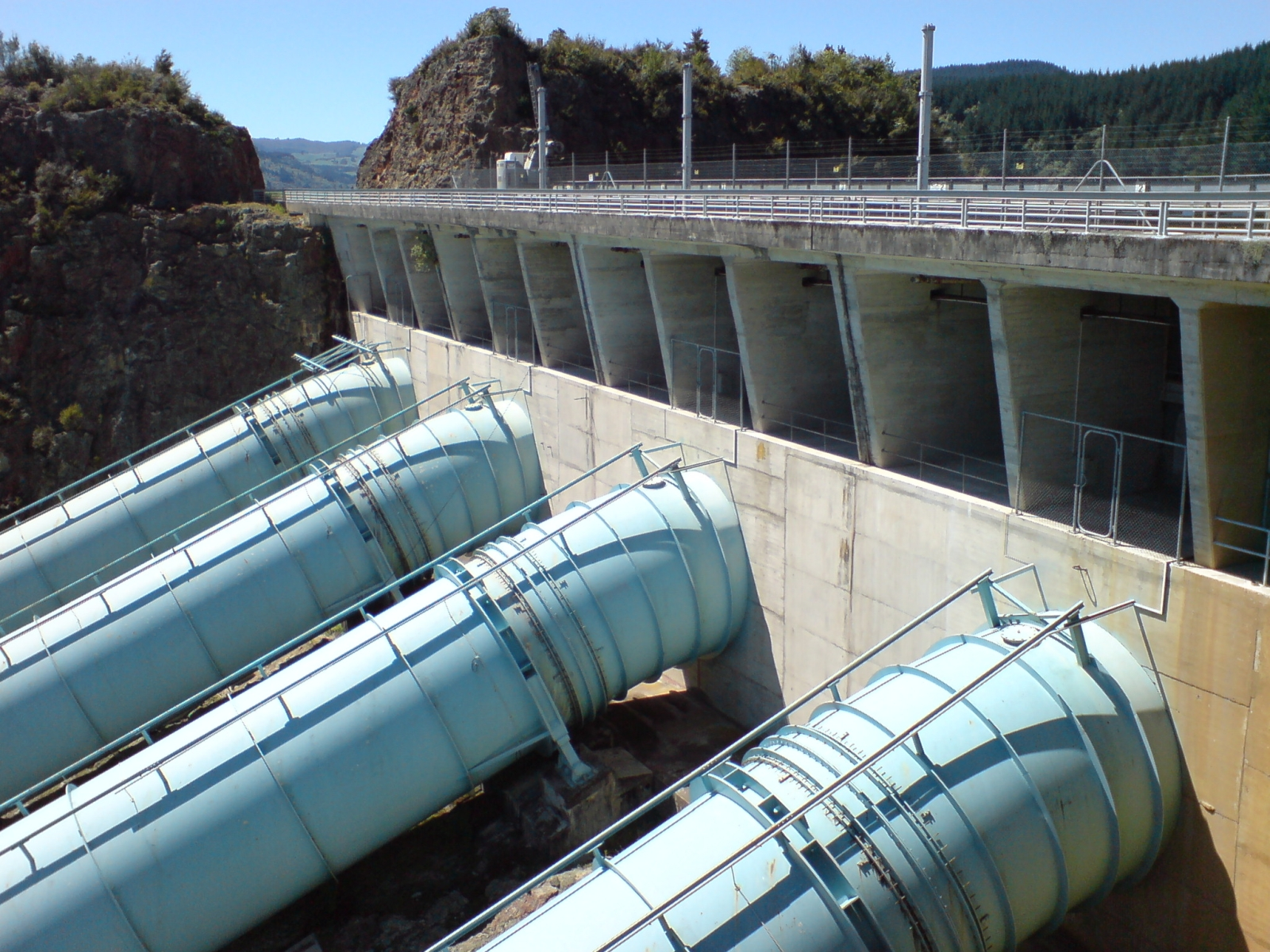 The penstocks of the Ohakuri Dam, Waikato Region, New Zealand, looking roughly east. They have a diameter of around 4 m!